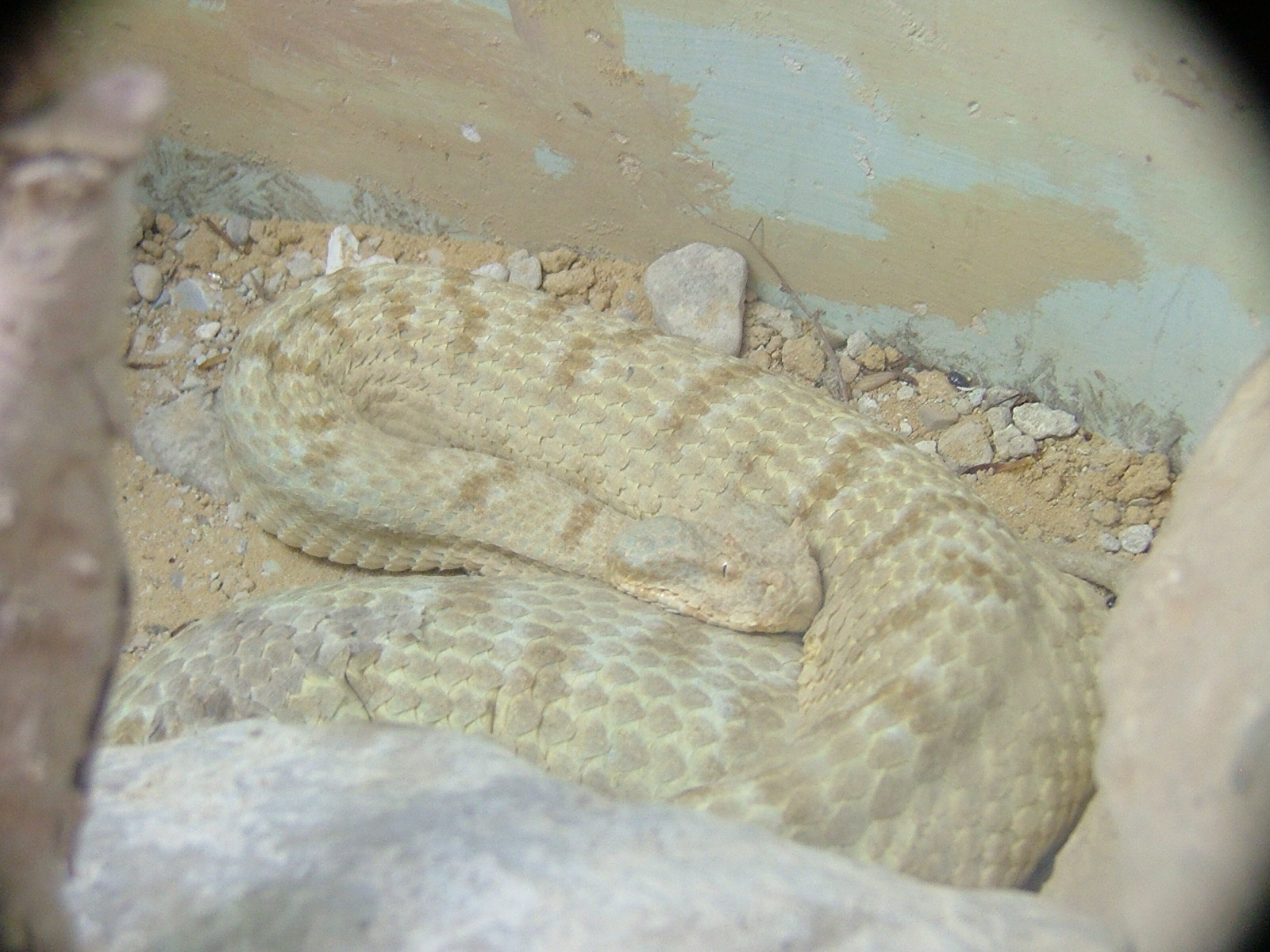 A Field's Horned Viper (Pseudocerastes persicus fieldi) at the Jerusalem Biblical Zoo.